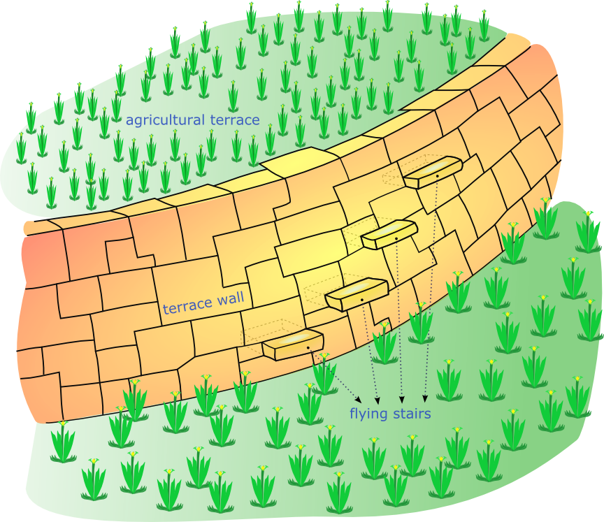 Inca agricultural terrace system and showing the flying stairs on the terrace wall.